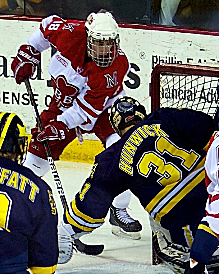 Reilly Smith #18 stuffs the puck past Shawn Hunwick #31 in 2010–11 NCAA action.